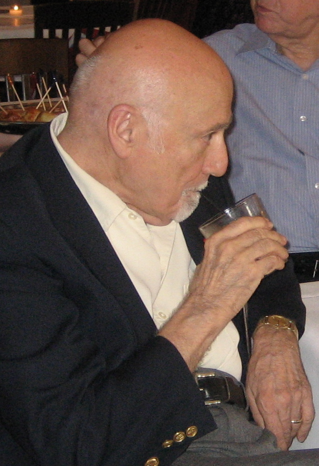 Record producer George Avakian at Hard Rock Cafe, New Orleans.